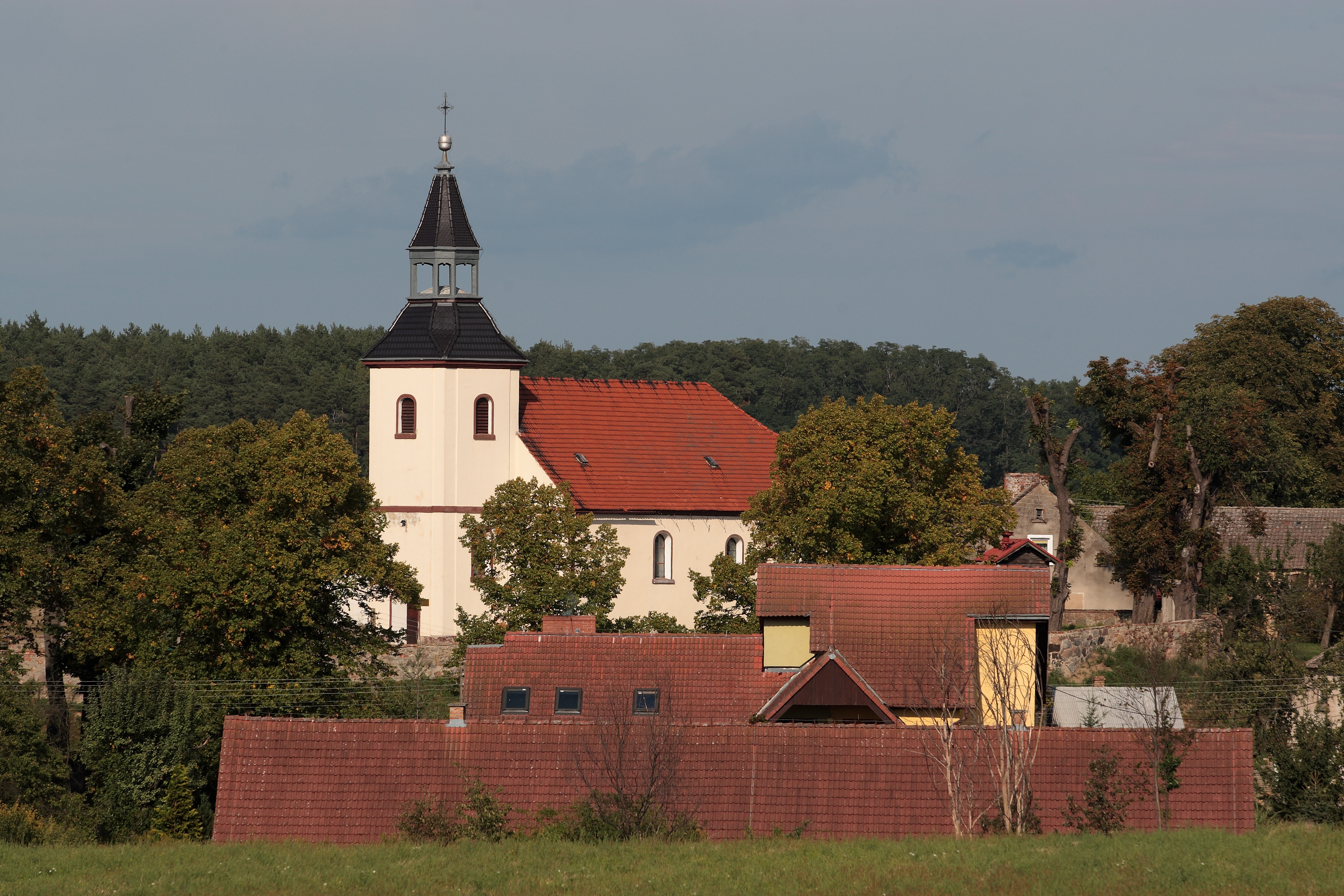 Osiecko